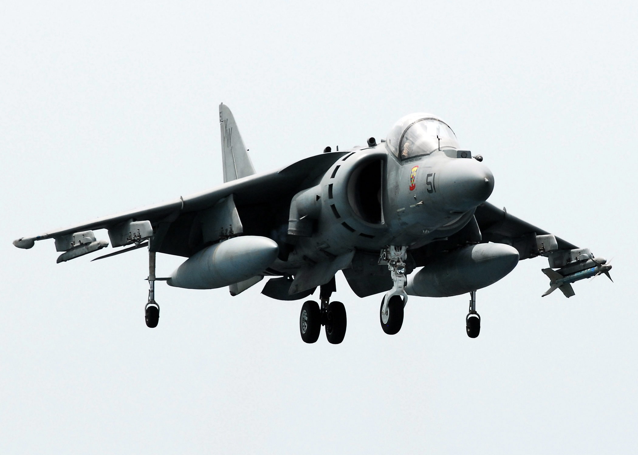 ARABIAN SEA (Sept. 22, 2008) An AV-8B Harrier jet lands aboard the amphibious assault ship USS Peleliu (LHA 5). Peleliu is deployed supporting maritime security operations in the U.S. 5th Fleet area of responsibility. U.S. Navy Photo by Mass Communication Specialist 2nd Class Dustin Kelling/Released)